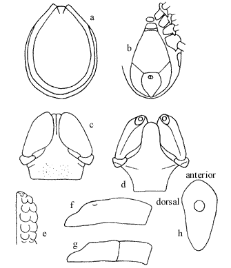 Anatomical features of Ixodes holocyclus adult male